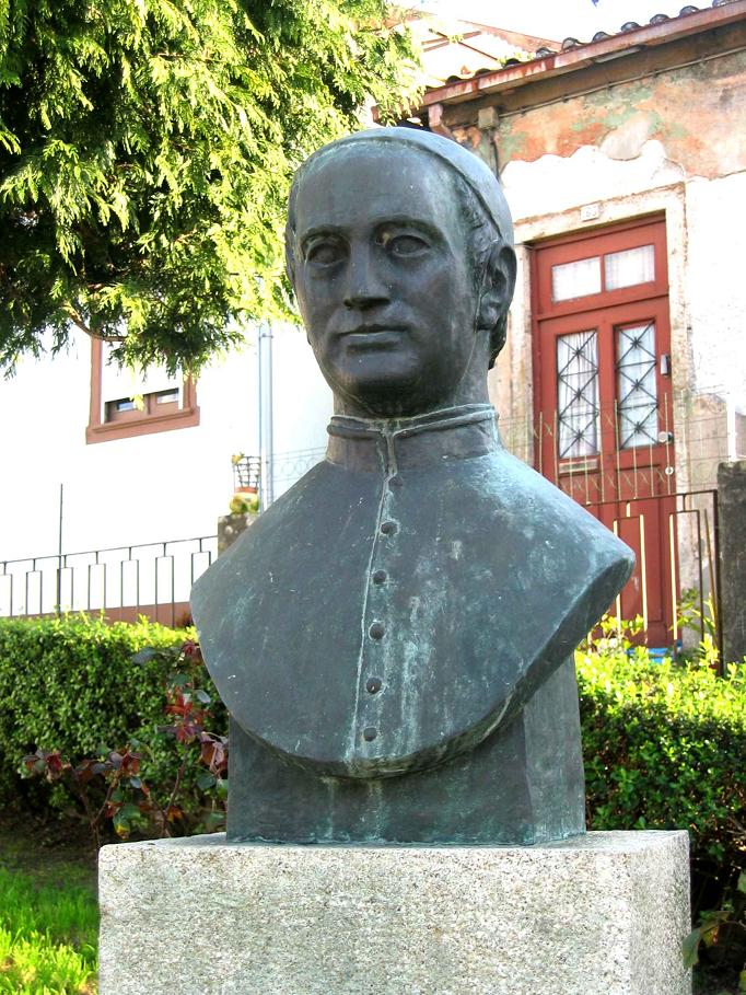 Bust of Frei Manuel de Santa Inês - Baguim do Monte - Gondomar - Portugal